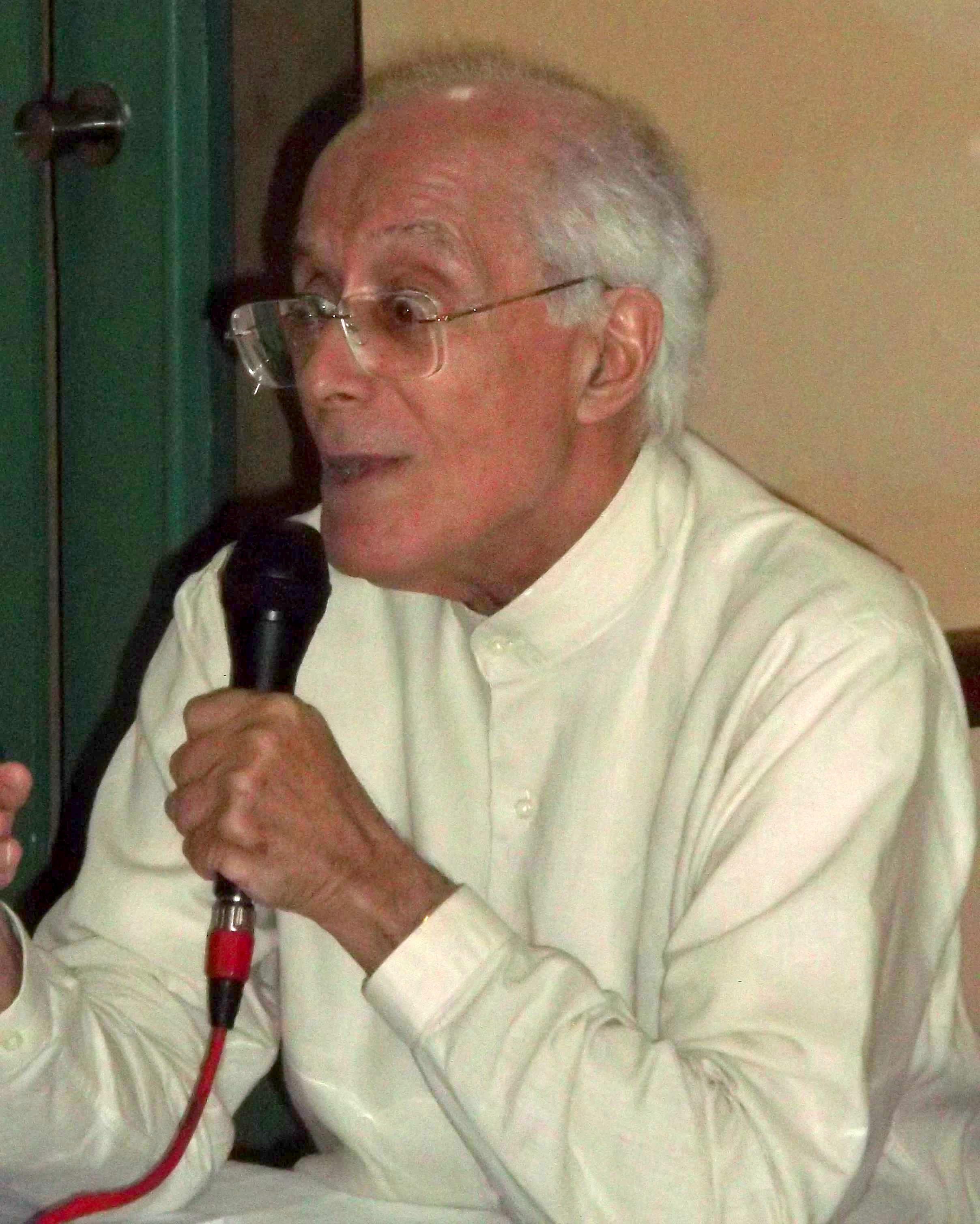 Ahmed Ounaies (1936- ), former tunisian foreign minister